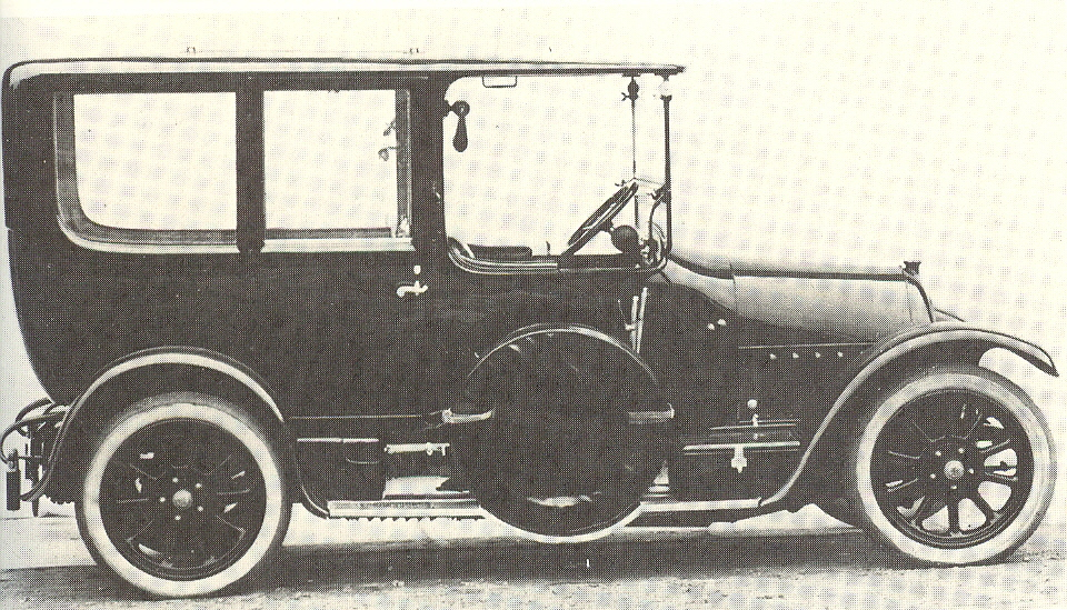 Fiat Tipo 2B Dorsay-Torpedo (1912)